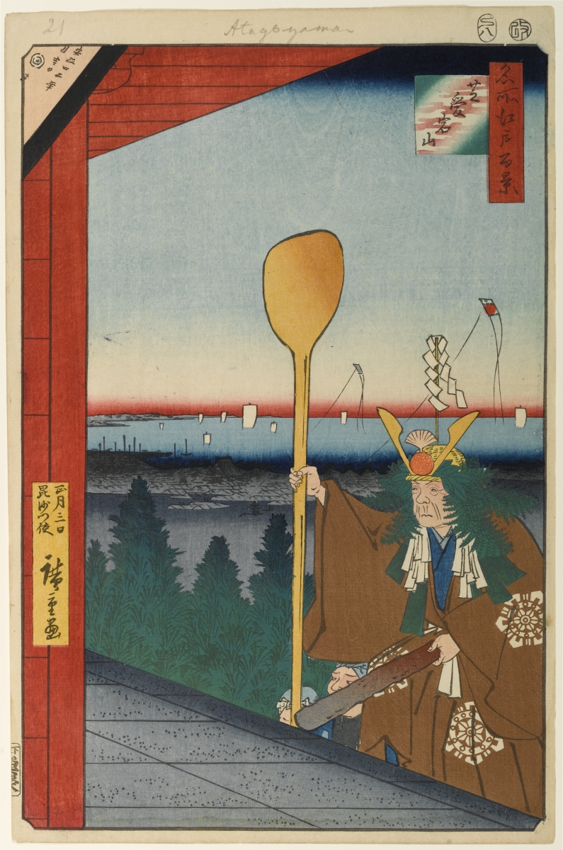 Part of the series One Hundred Famous Views of Edo, no. 021, part 1: Spring.